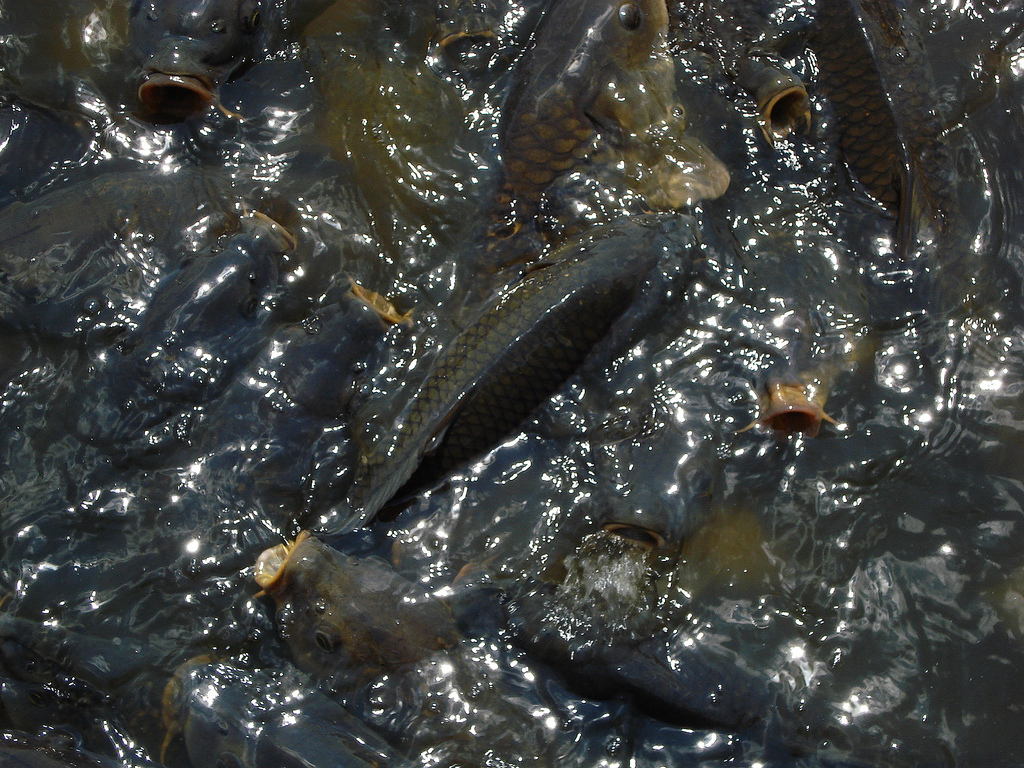 Carp at the Pymatuning spillway, "where the ducks walk on the fish". Taken summer 2008, Pymatuning, Ohio.